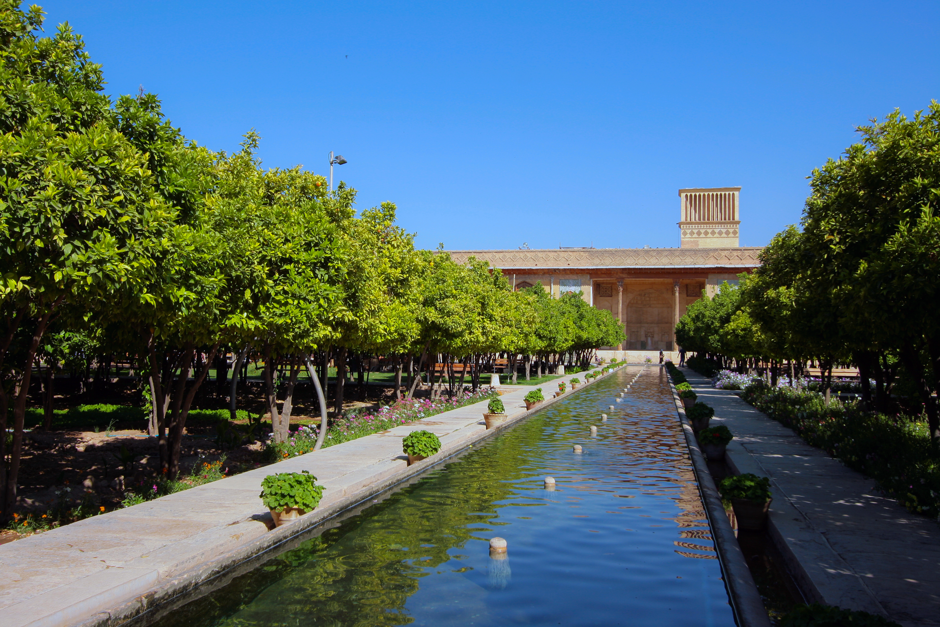 The Karim Khan Castle is a citadel located in the downtown Shiraz, southern Iran. It was built as part of a complex during the Zand dynasty and is named after Karim Khan, and served as his living quarters. In shape it resembles a medieval fortress.